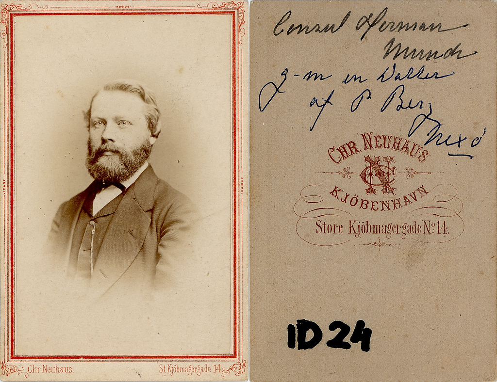 Maker: Chr. Neuhaus, 1833-1907, 1862-1894 Købmagergade 14. Nationality: Danish Medium: Albumen print Size: Carte de visite Location: Copenhagen Year:Unknown Owner: Nexø Museum Publication: Ochsner Notes: Portrait of consul Herman Munch